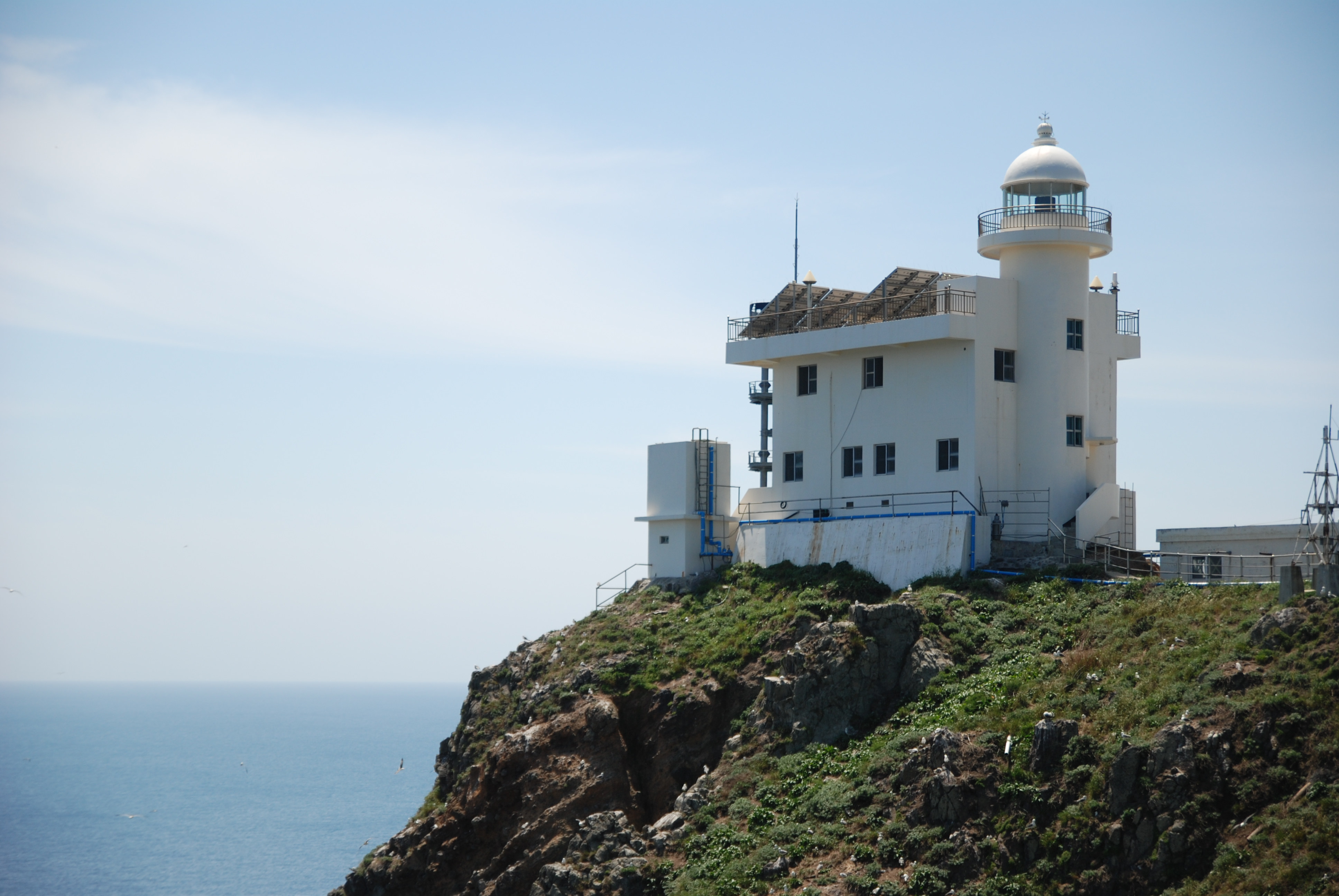 South Korean guards' watchtower on Liancourt Rocks, East Islet.